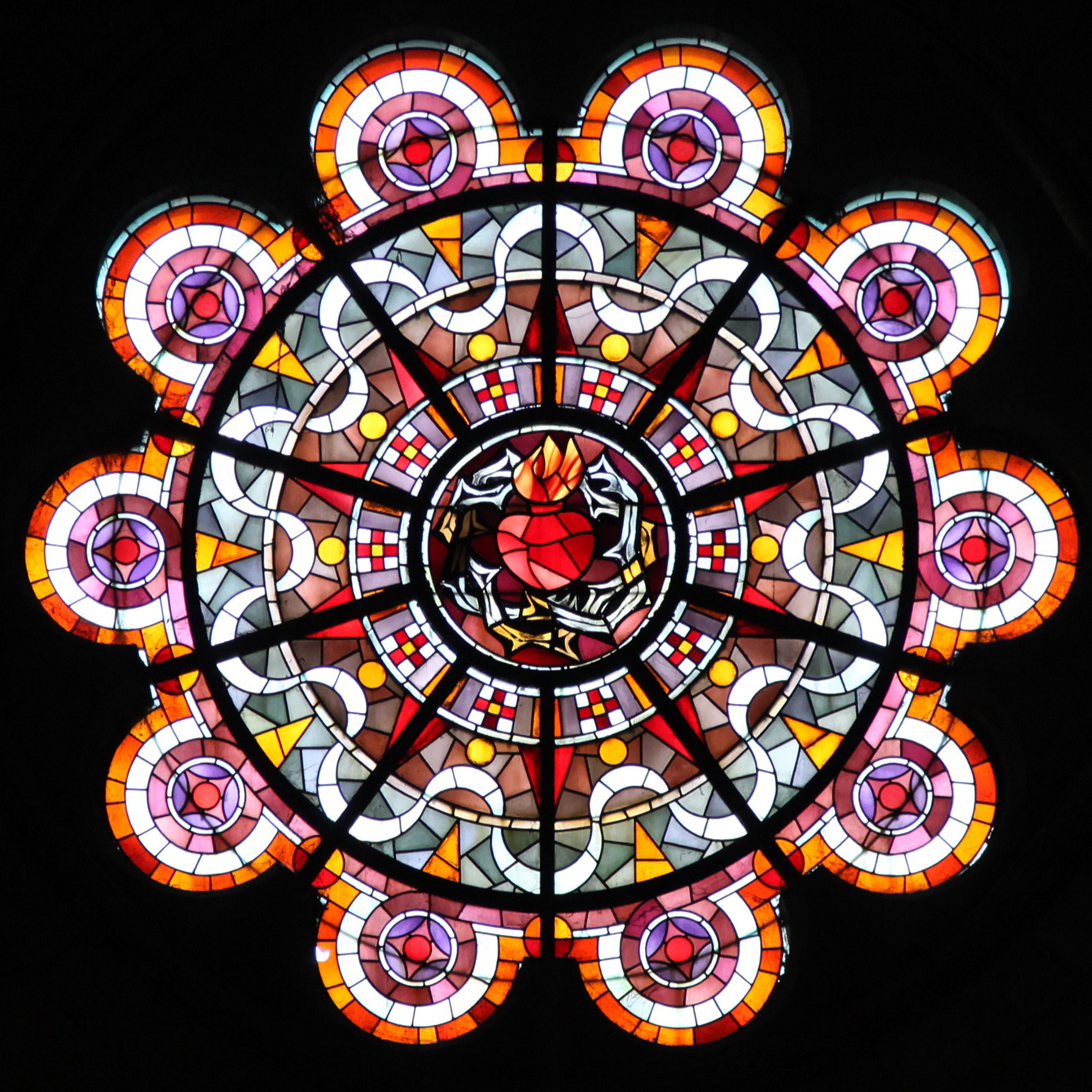 rose window in Sacré-Cœur de Montmartre with the Sacred Heart of Jesus